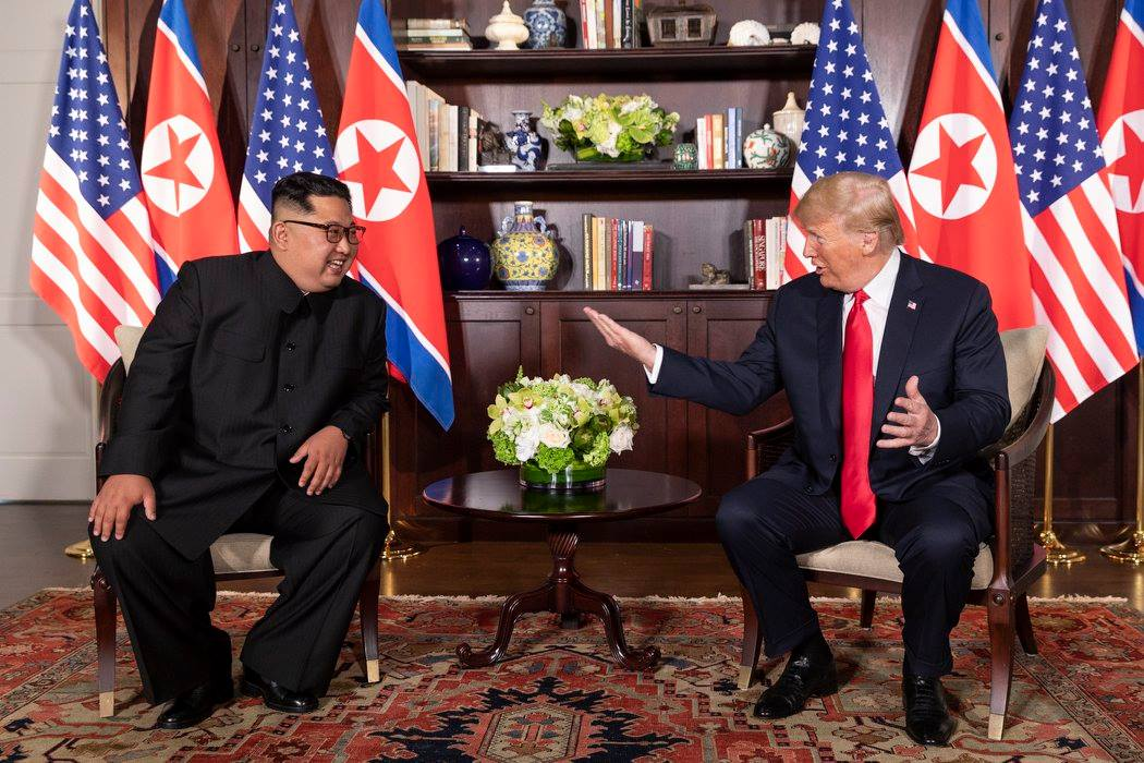 President Donald J. Trump and North Korean leader Kim Jong Un, participate in their bilateral meeting, Tuesday, June 12, 2018, at the Capella Hotel in Singapore. (Official White House Photo by Shealah Craighead)